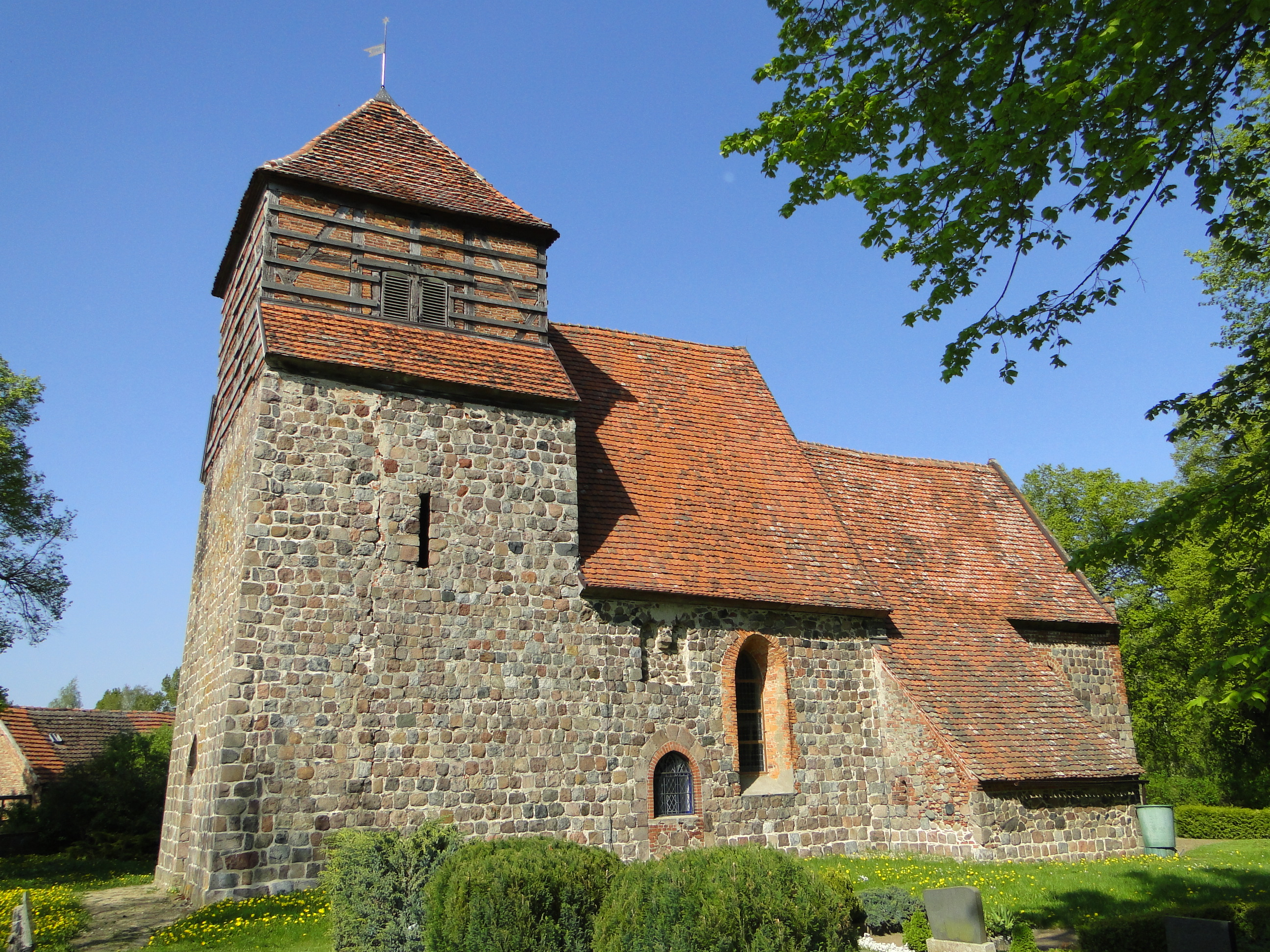 Church in Badresch, district Mecklenburg-Strelitz, Mecklenburg-Vorpommern, Germany